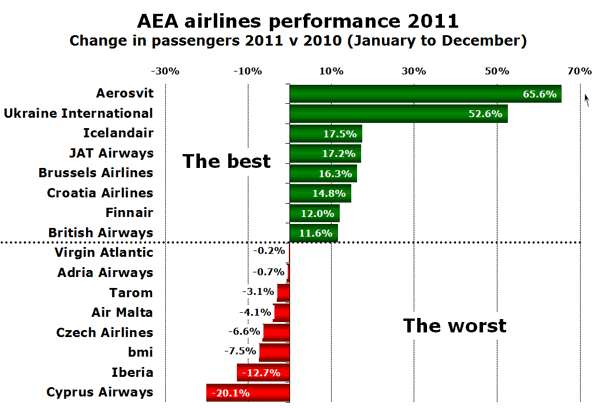 Association of European Airlines change in passengers 2010-11